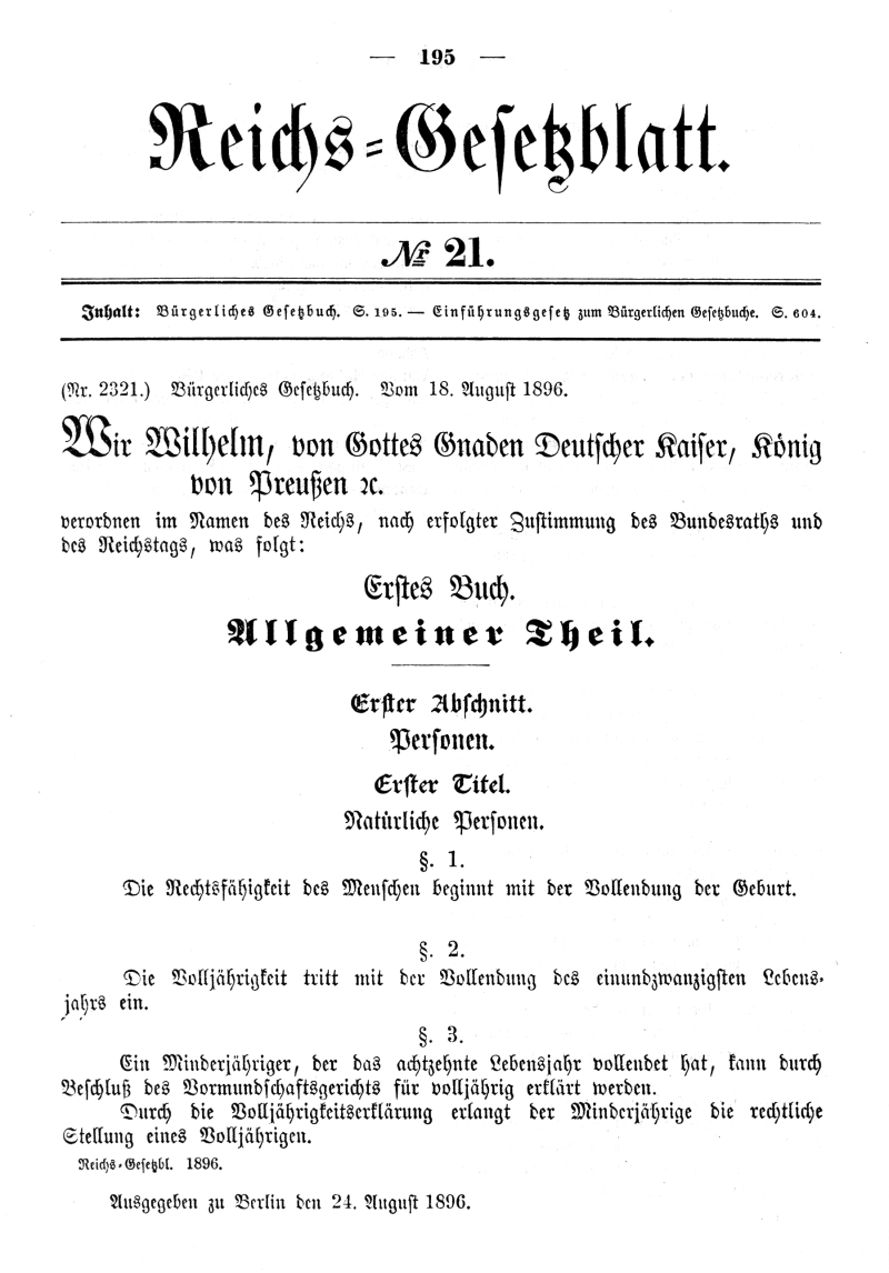 Description: Publication of the German Civil Code in the Reich Law Gazette on August 24, 1896: „We, Wilhelm, by the grace of God, German Emperor, King of Prussia etc., do ordain in the name of the German Empire, the same having been passed by the Bundesrath and the Reichstag, as follows: [...]“